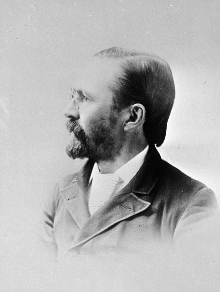 Joseph Marmette, a Canadian novelist and historian. Joseph Marmette (Montmagny, 1844 - Ottawa, 1895) est un romancier québécois. Il a surtout écrit des romans historiques. Source: Library and Archives Canada Terms of use Credit: Library and Archives Canada / C-001476 Restrictions on use: Nil Copyright: Expired